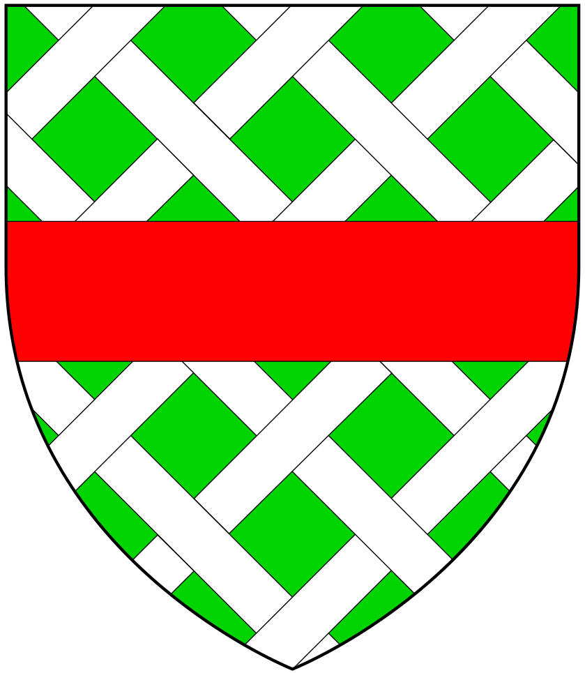 Arms of Cabell of Brooke in the parish of Buckfastleigh, Devon: Vert fretty argent, over all a fess gules (Vivian, Lt.Col. J.L., (Ed.) The Visitations of the County of Devon: Comprising the Heralds' Visitations of 1531, 1564 & 1620, Exeter, 1895, p.125)